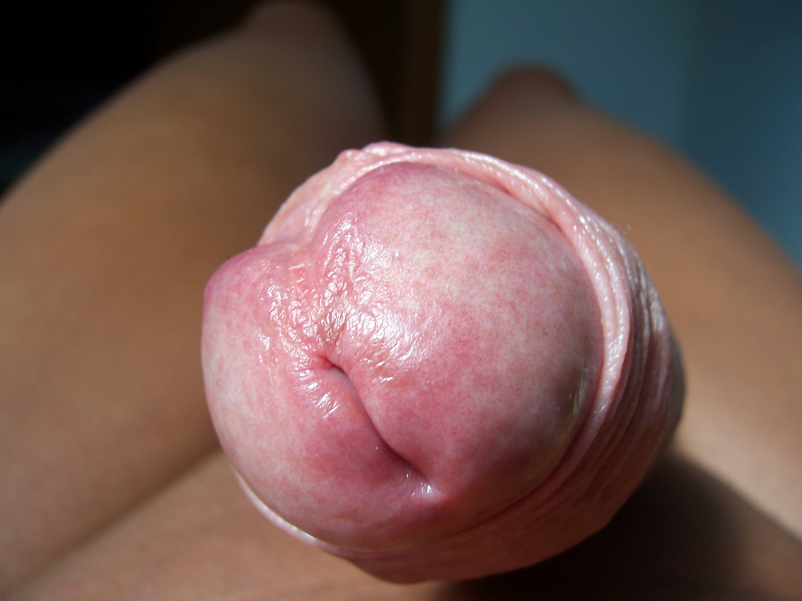 Close-Up of the human Glans Penis, view on the the top exposing the meatus urethrae